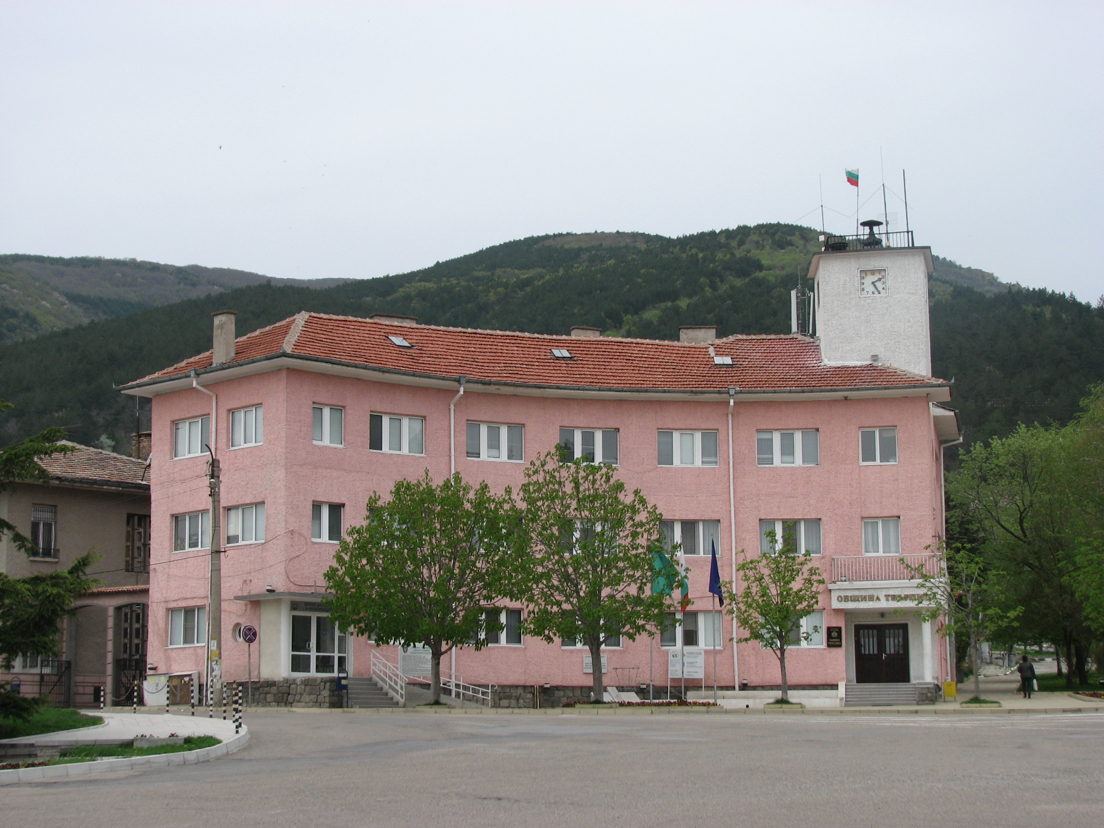 Tvarditsa town hall